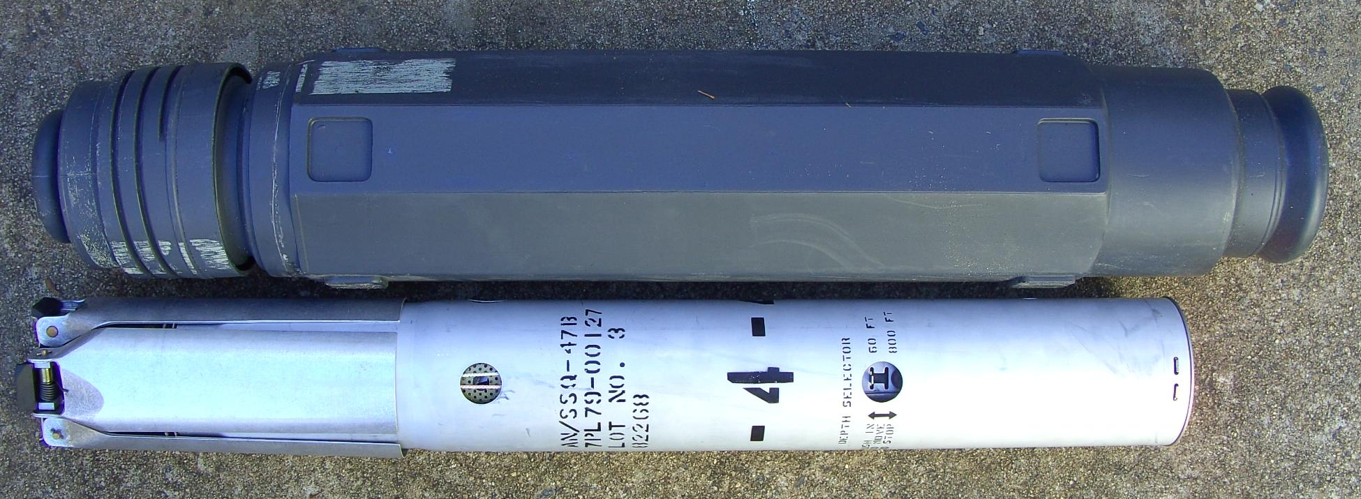 AN/SSQ-47B sonobuoy (Frequency 4) and plastic stowage case The AN/SSQ-47B is an 'active' (pinger) or ranger (range measuring) sonar sonobuoy[1]